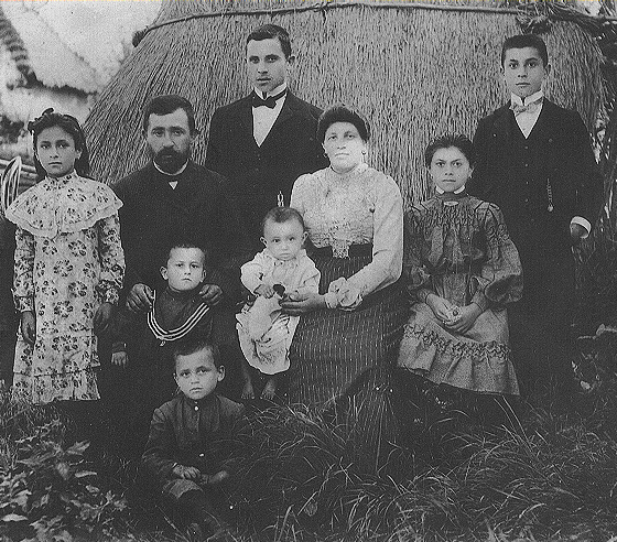 Ashkenazic Jewish family from Romanivka, Ukraine. The father (Mordecai Troyansky) was killed in 1918 during a pogrom the same day the Czar was killed.